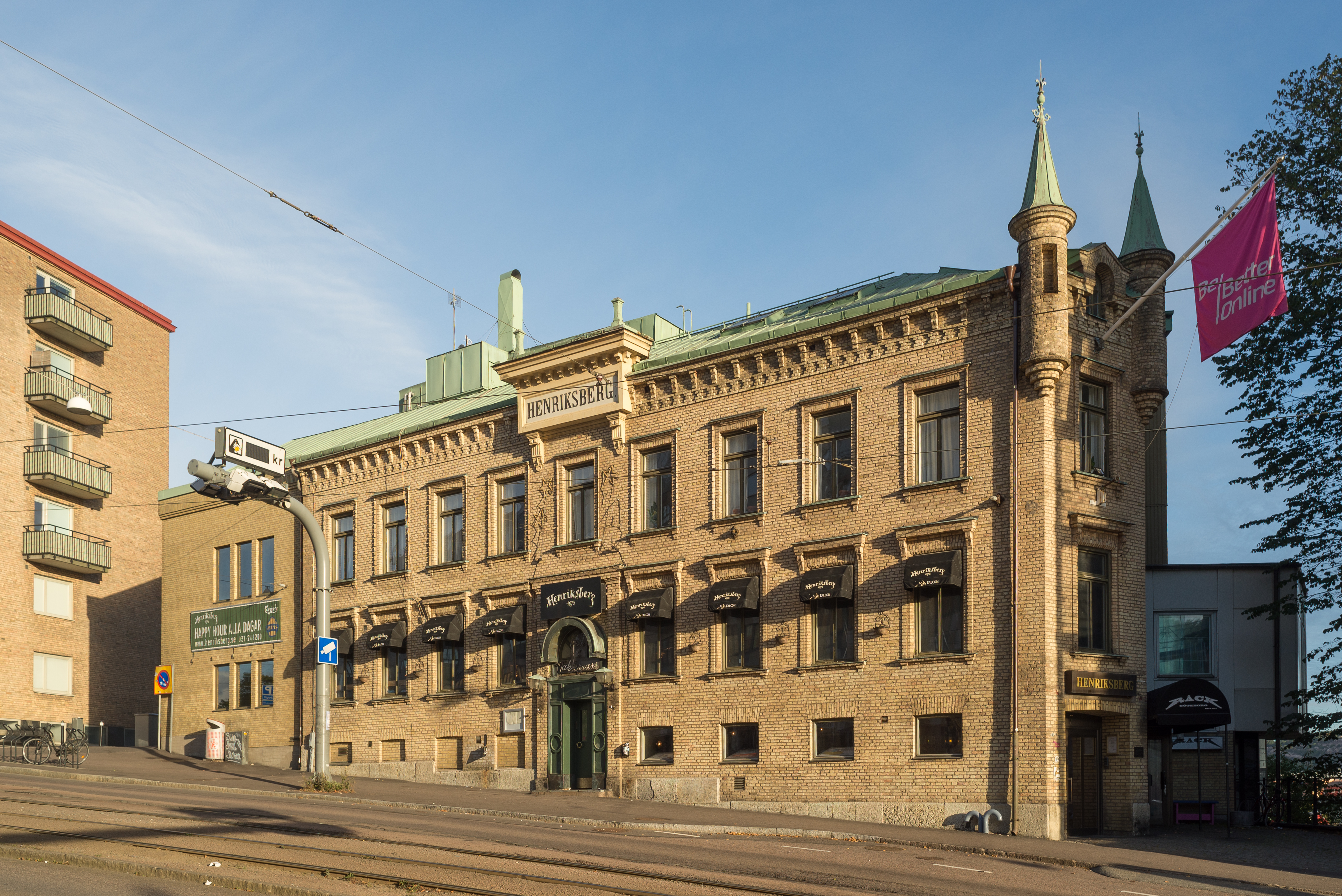 Historic restaurant Henriksberg in Gothenburg, Sweden